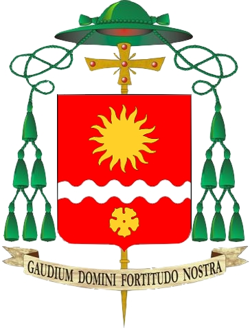 coat of arms of Aloys Jousten, Bischop of Liege (Belgium)